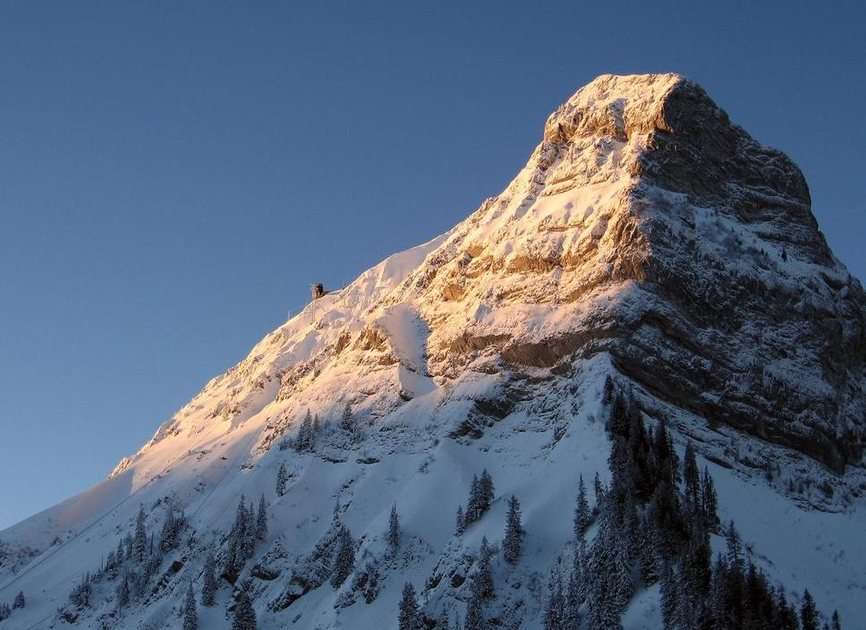 The Moleson in winter